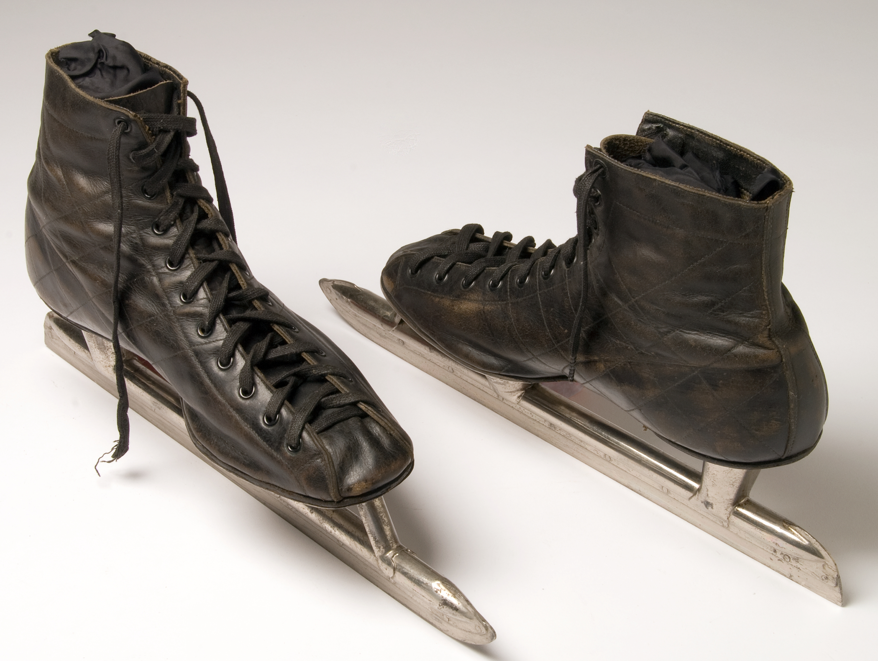 (8876.3.A,B) Ice skates, Strauss Skates, Inc., St. Paul, Minnesota, ca. 1925. On display at Minnesota's Greatest Generation exhibit at the Minnesota History Center.